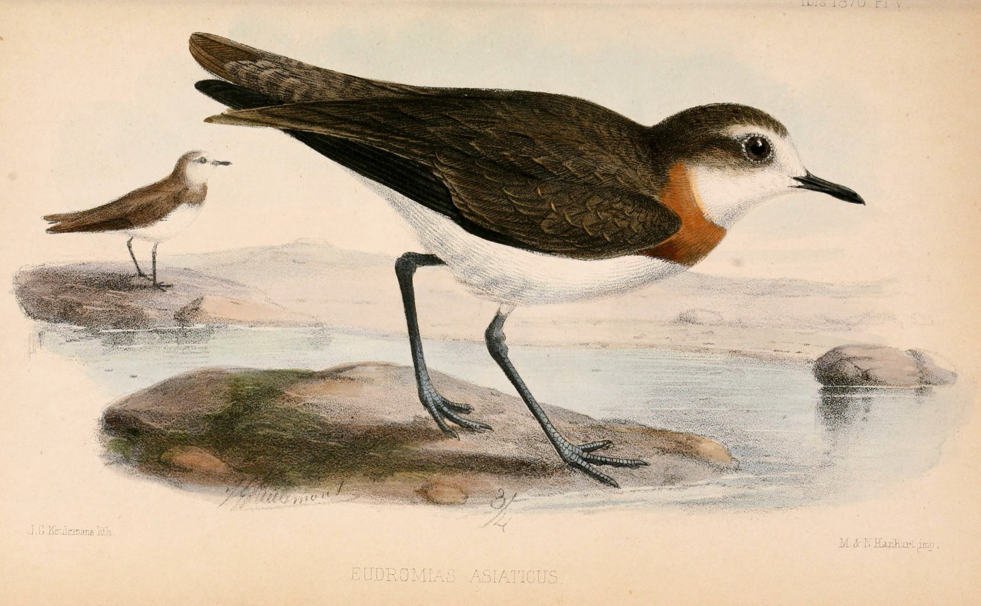 « Eudromias asiaticus » = Charadrius asiaticus (Caspian Plover)